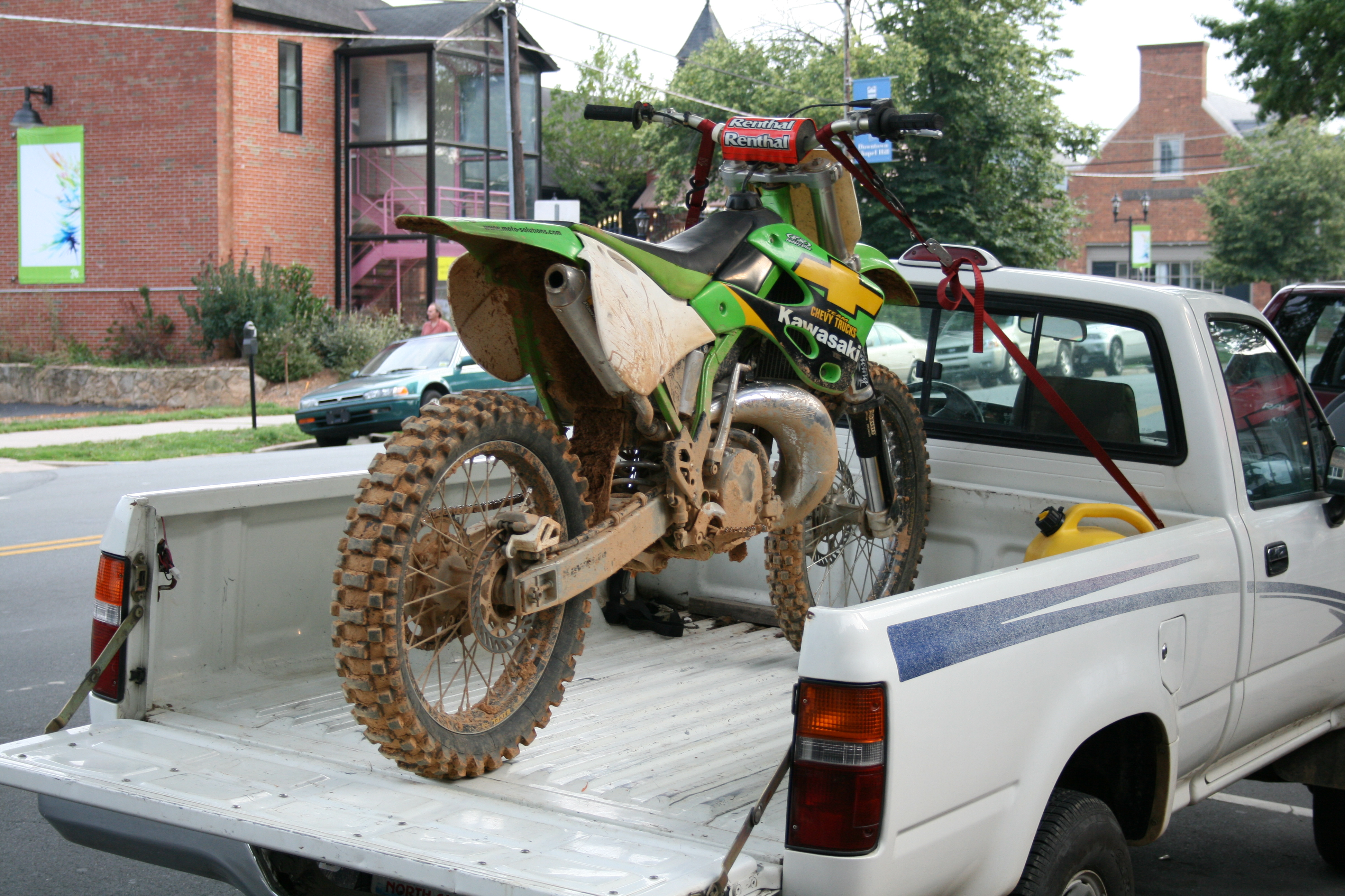 Dirt bike fixed to a truck bed on Franklin Street in Chapel Hill, North Carolina.